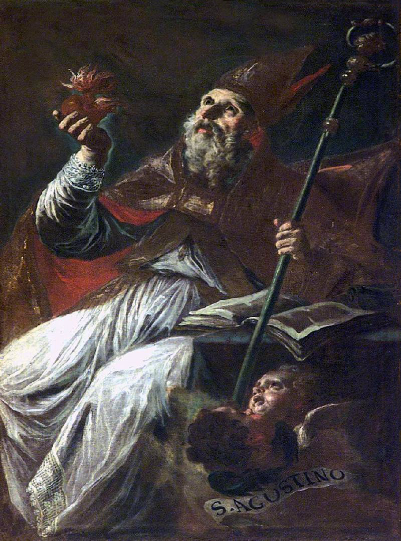 Augustinus of Hyppo